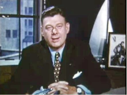 Screenshot taken from the 1:34 mark in the above film. TV host Arthur Godfrey takes controls of a passenger plane to demonstrate airline operations. This movie is part of the collection: Prelinger Archives Producer: Fairbanks (Jerry) Productions Sponsor: Eastern Air Lines